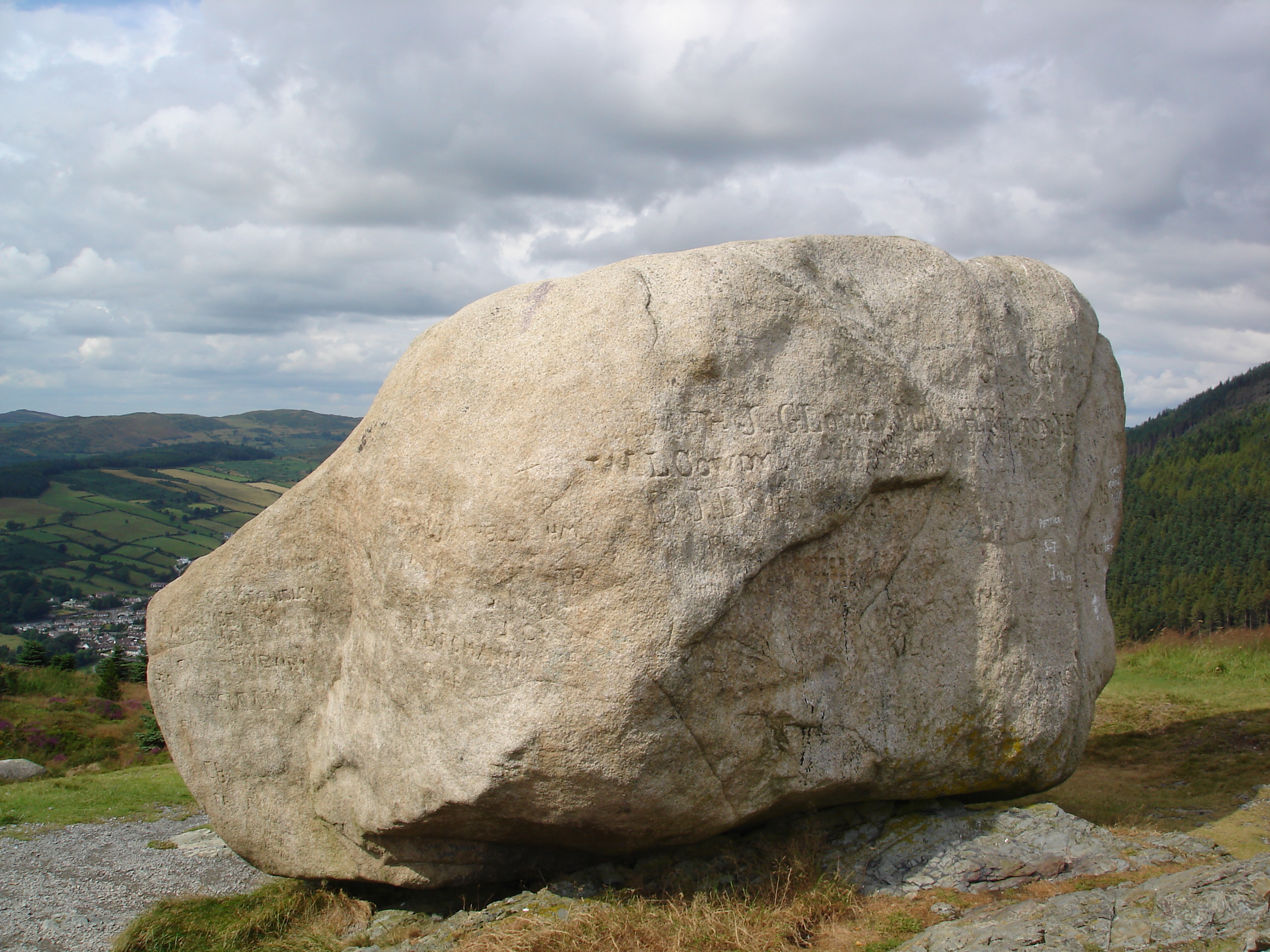 orfhlaith o'brien, 2005